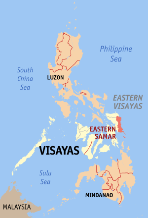 Map of the Philippines showing the location of Eastern Samar